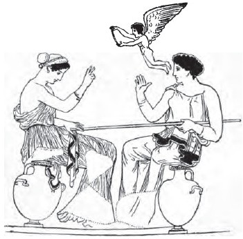 Die Spiele der Griechen und Römer (1887) Author: Wilhelm Richter Publisher: E. A. Seemann Year: 1887 Possible copyright status: NOT_IN_COPYRIGHT Language: German Digitizing sponsor: Google Book contributor: University of Michigan Collection: americana